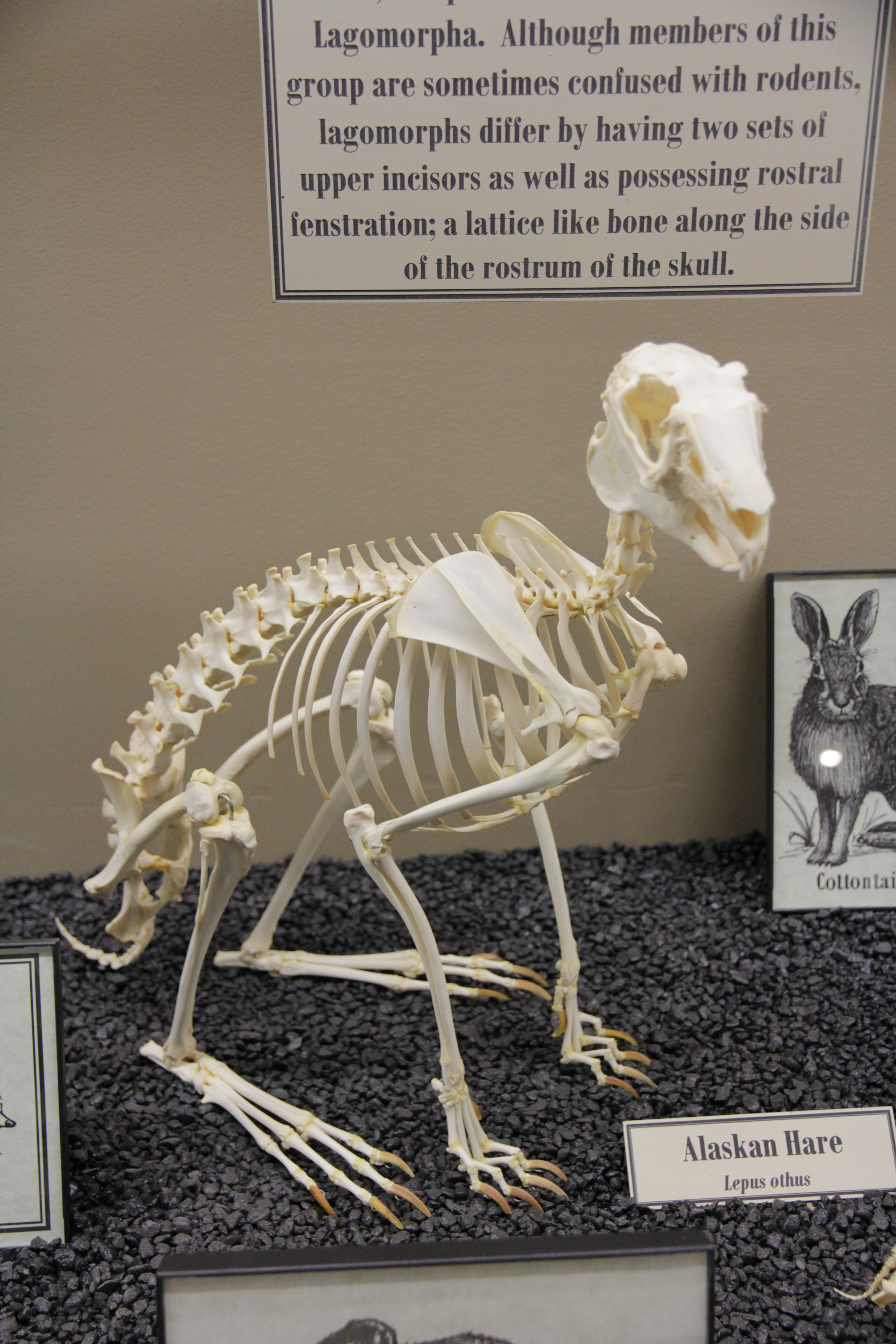 Skeleton of an Alaskan Hare on display at the Museum of Osteology in Oklahoma City, Oklahoma.